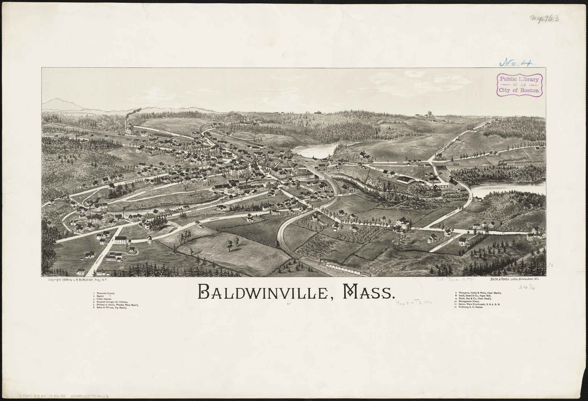 Zoom into this map at . Author: Burleigh, L. R. Publisher: L.R. Burleigh Date: c1886. Location: Baldwinville (Mass.) Scale: Not drawn to scale. Call Number: G3764.B18A3 1886.B8